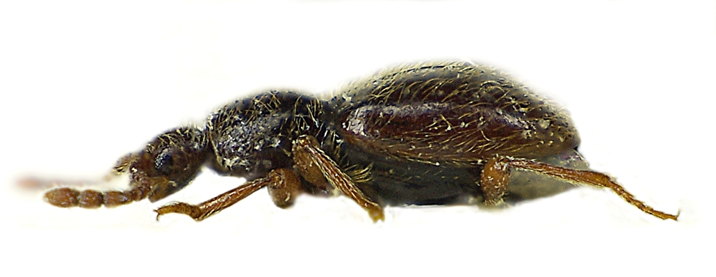 Scydmaenus tarsatus from Hungary coll. 1992-05-09